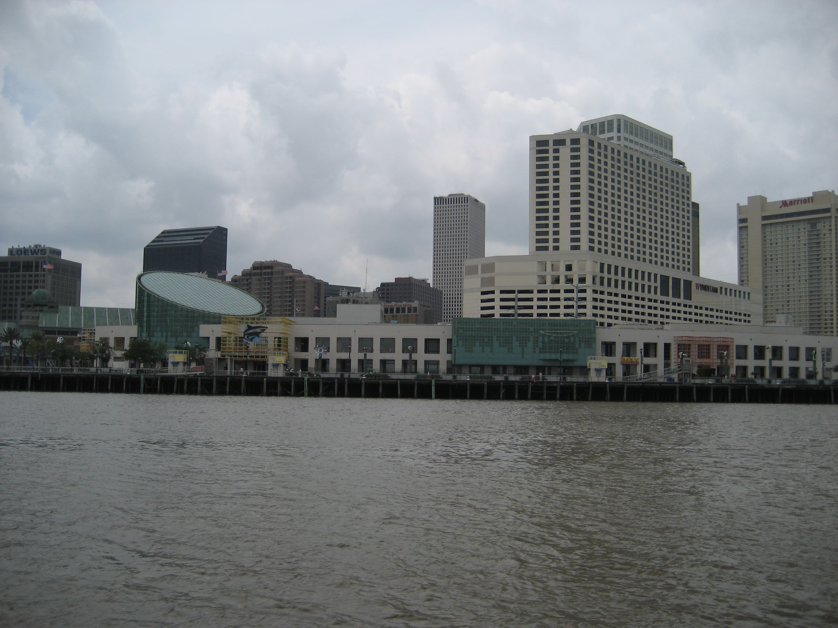 New Orleans: Aquarium of the Americas as seen from Algiers Ferry in the Mississippi River. Canal Place is highrise to center right.